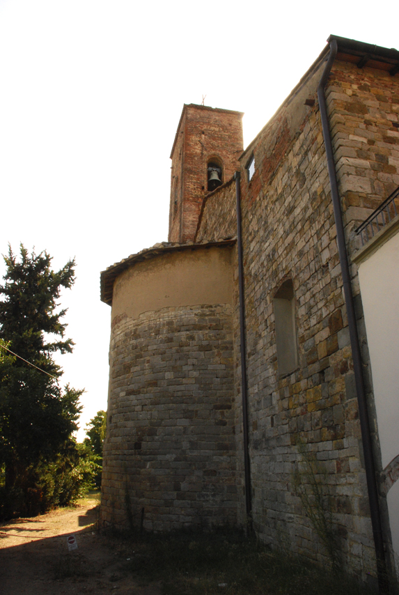 the Church of Santa Maria at Mantignano, Florence, Italy. East side: Apse and Bell Tower.